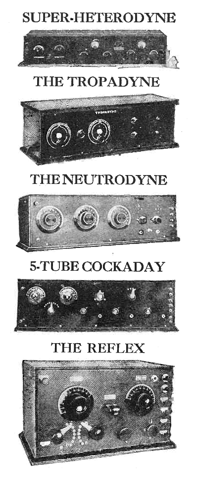 Pictures of different types of radio receivers used during the 1920s. Unlike today when most radios use a single type of circuit, the superheterodyne, during the 1920s many different circuits were used.